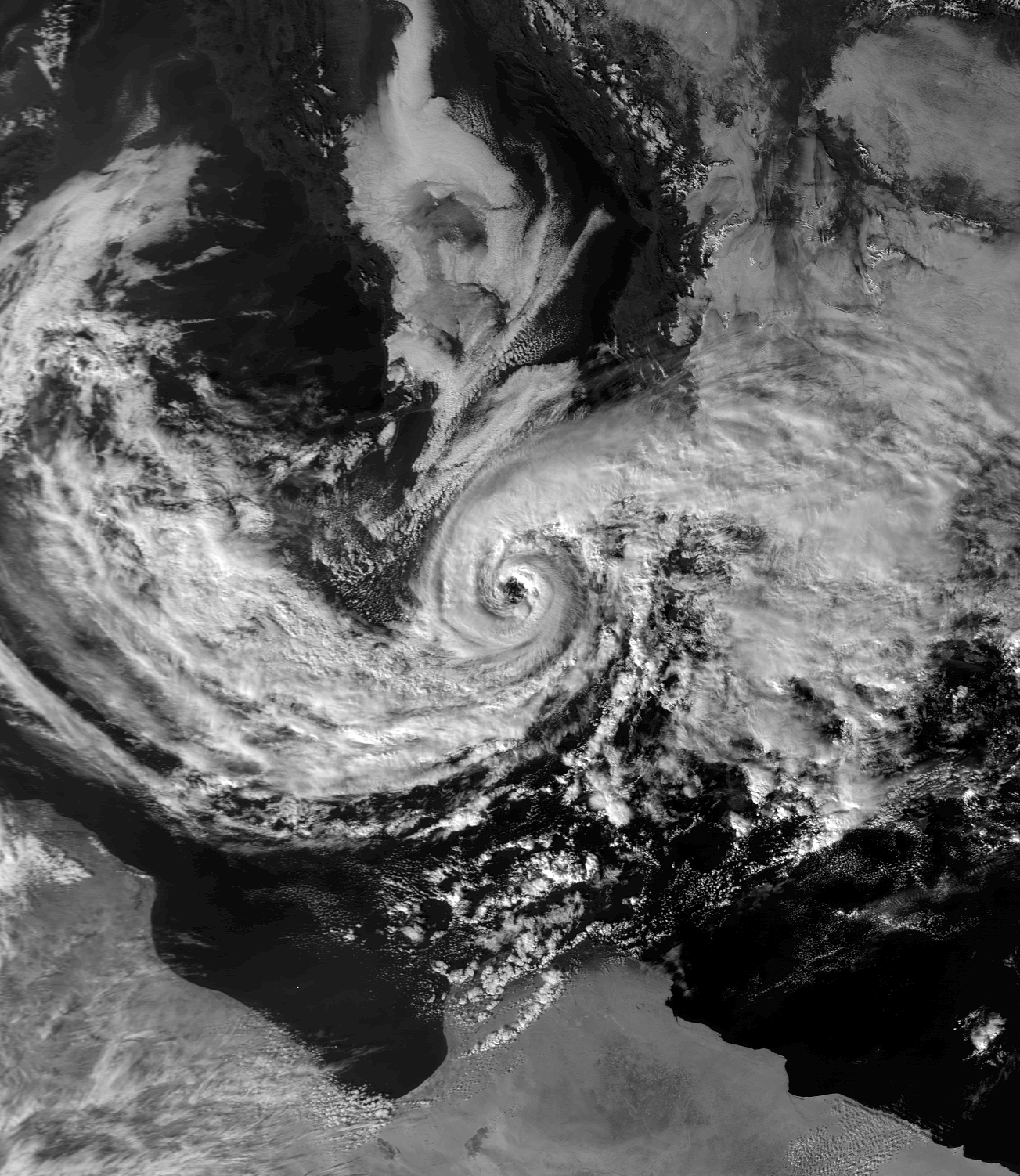 NOAA-7 visible satellite imagery of a Mediterranean tropical storm at 1236 UTC on 26 January 1982.